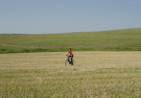 A girl riding her bicycles in Park Ramat Menashe, south of Mt. Carmel, in Israel. The Menashe hills are at the background.